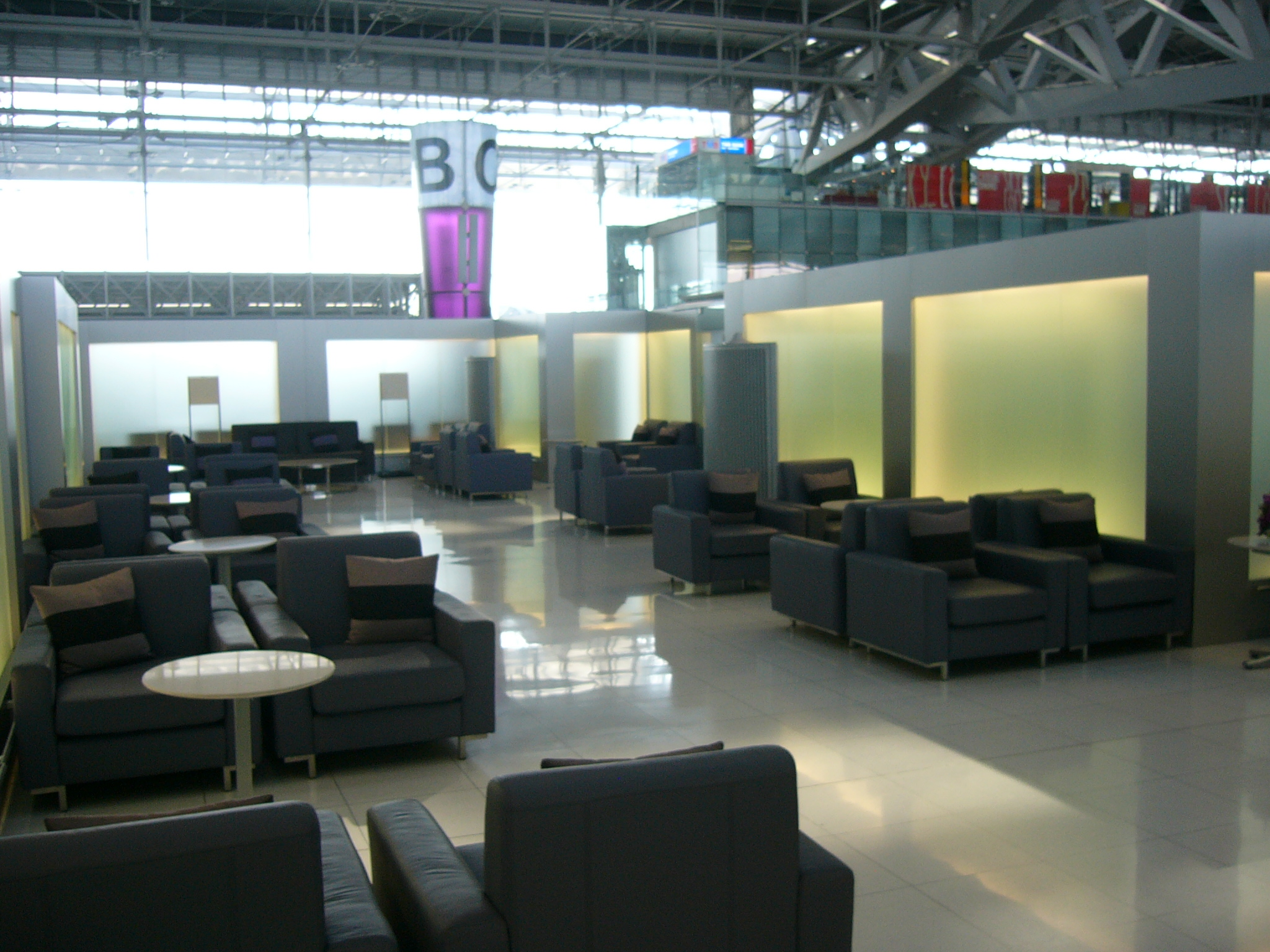 Passenger Waiting Room of Thai Airways First at Suvarnabhumi International Airport near Bangkok, Thailand.